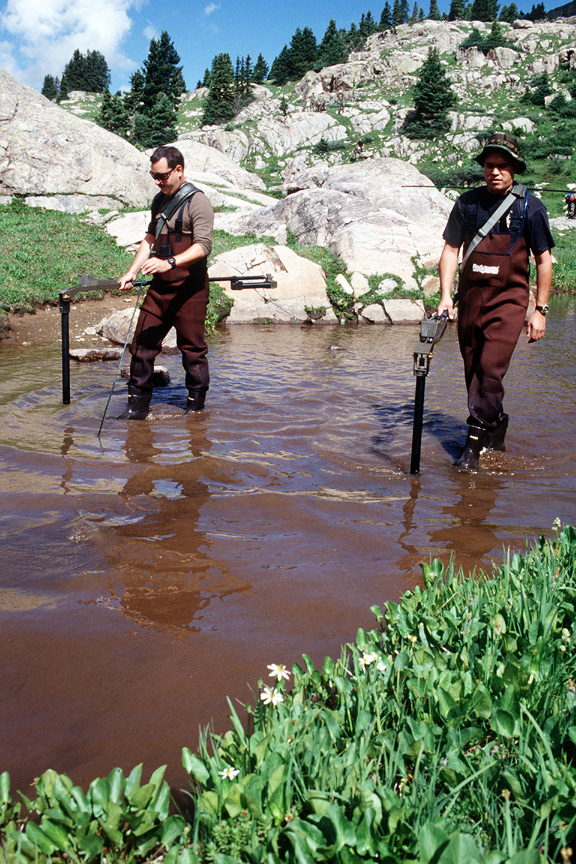 Explosive Ordnance Disposal members SRA Kelly Roy (left) and SRA Ferdinand Smith (right) search the ponds with their MK-26 Ferrous Ordnance Locators for any remnants of the four 500 pound Mark 82 bombs that were carried by the A-10 that crashed on Gold Dust Peak. (Released to Public)